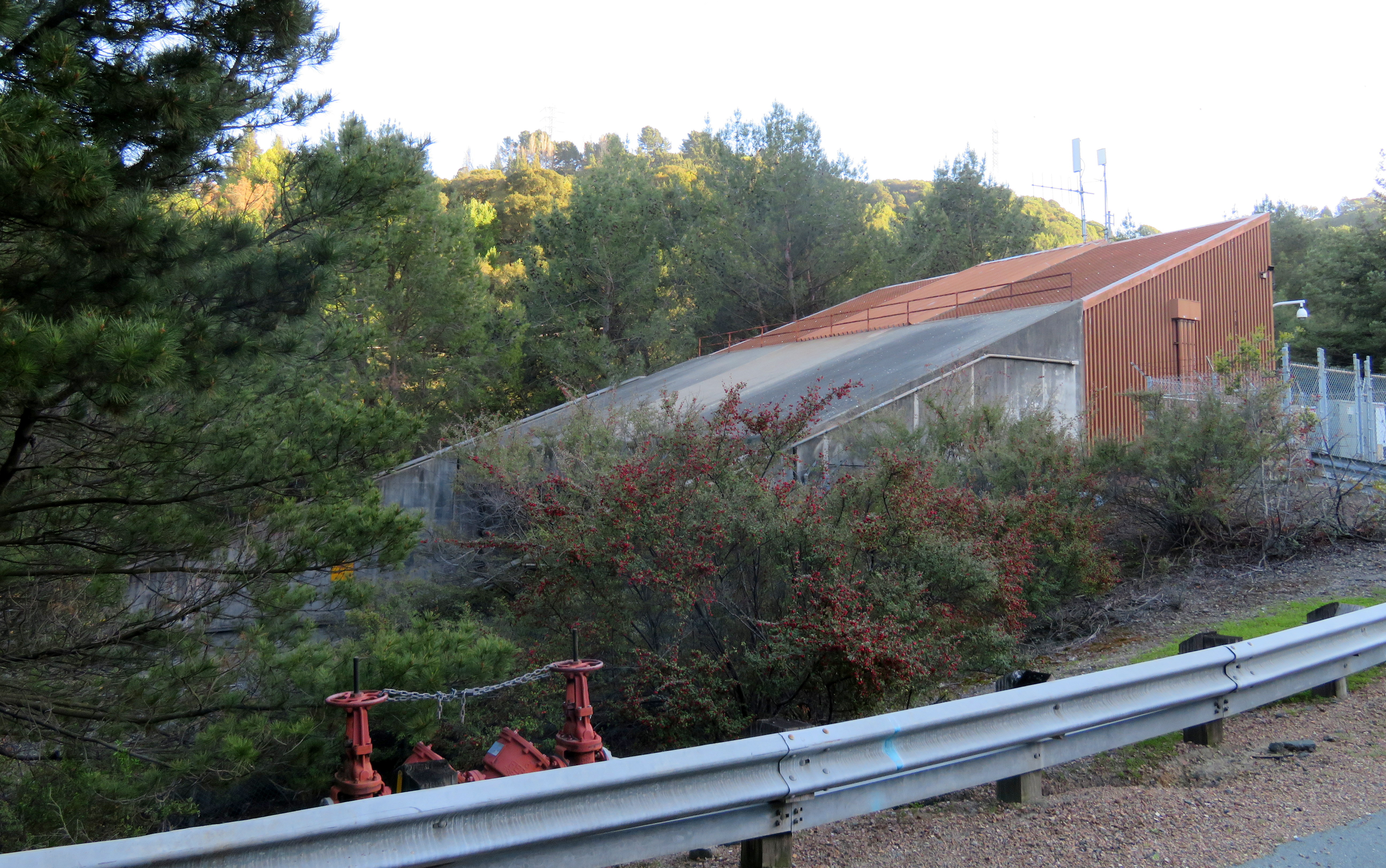 Structure at the east end of the Berkeley Hills Tunnel in March 2018